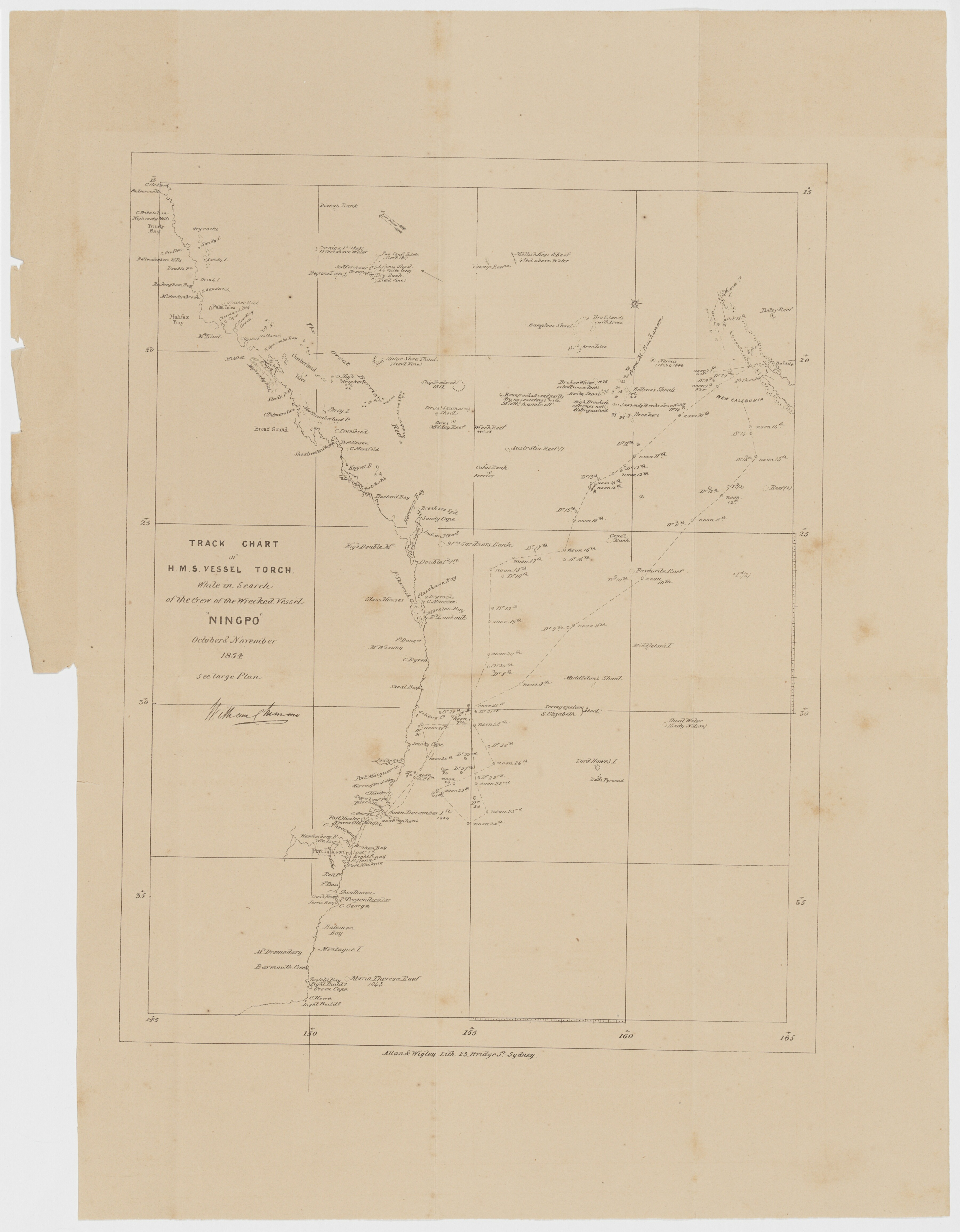 Track chart of H.M.S. vessel Torch while in search of the crew of the wrecked vessel "Ningpo", October & November 1854, lithographic print, Chimmo, William, Allan & Wigley, Sydney, 1854, State Library of New South Wales, Z/Cb 85/28